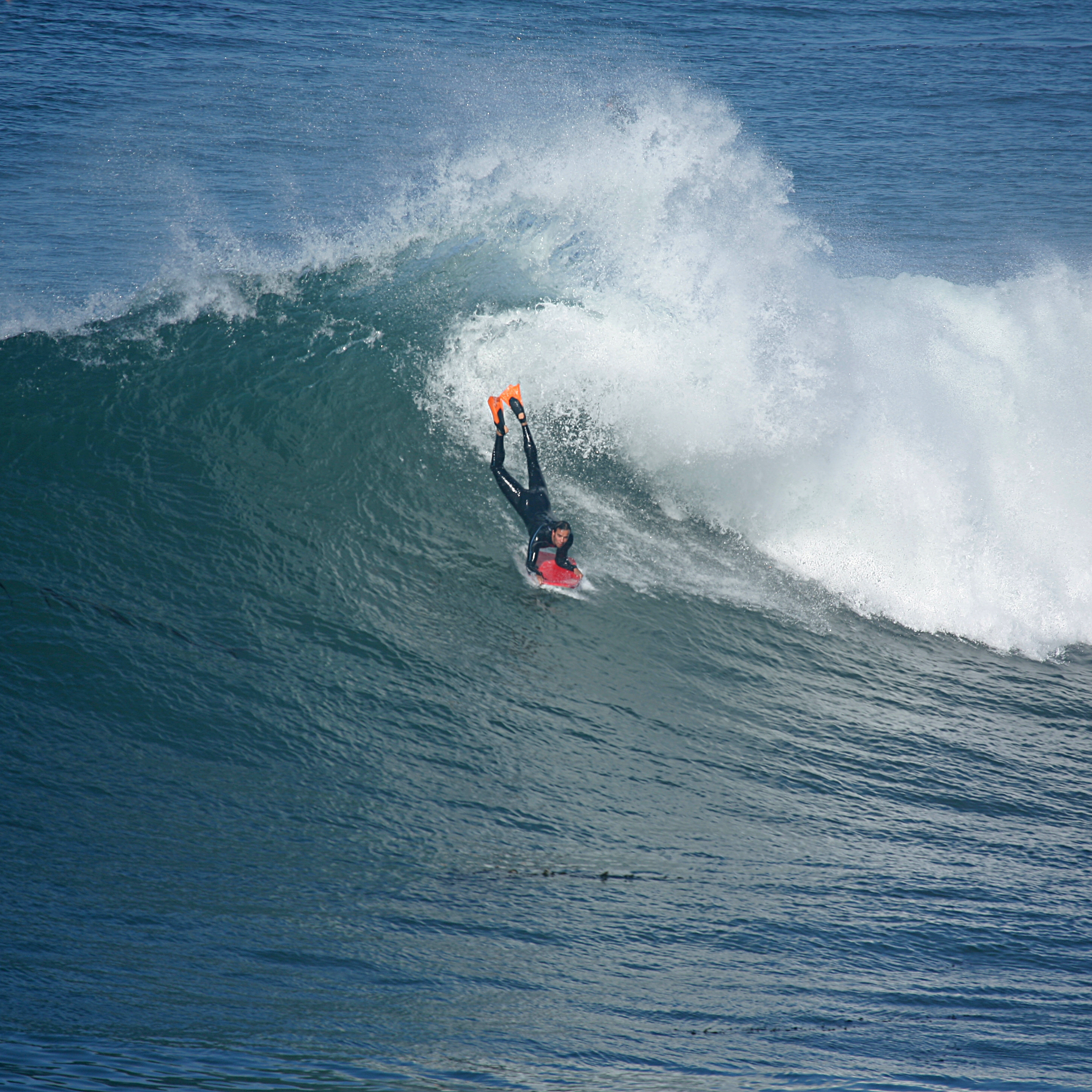 Bodyboarding in San Diego, California, December 2007